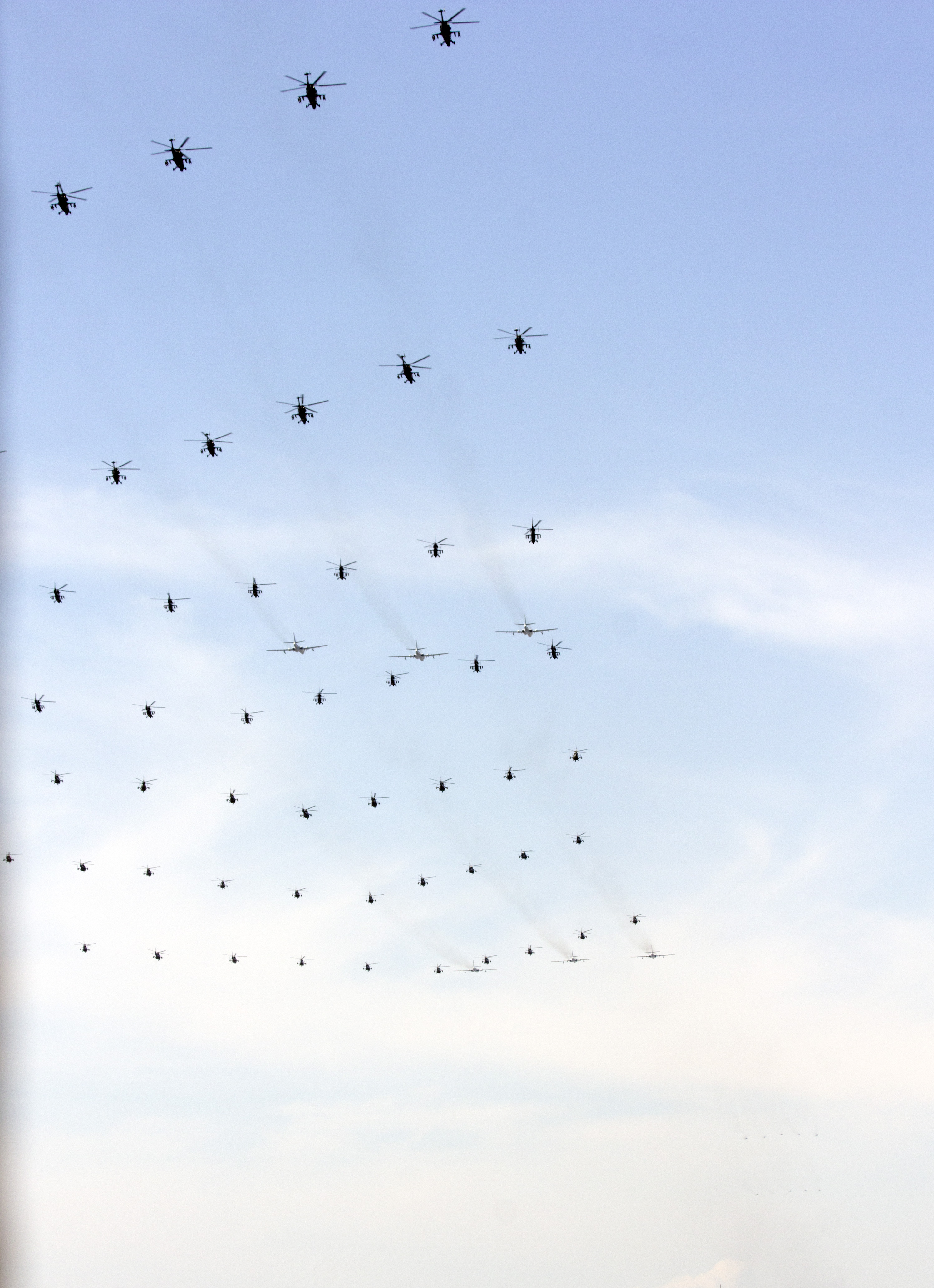 Taken on Tongzhou District. helicopter echelon